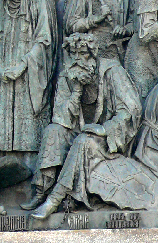 Атаман Ермак на Памятнике "1000-летие России" в Великом Новгороде